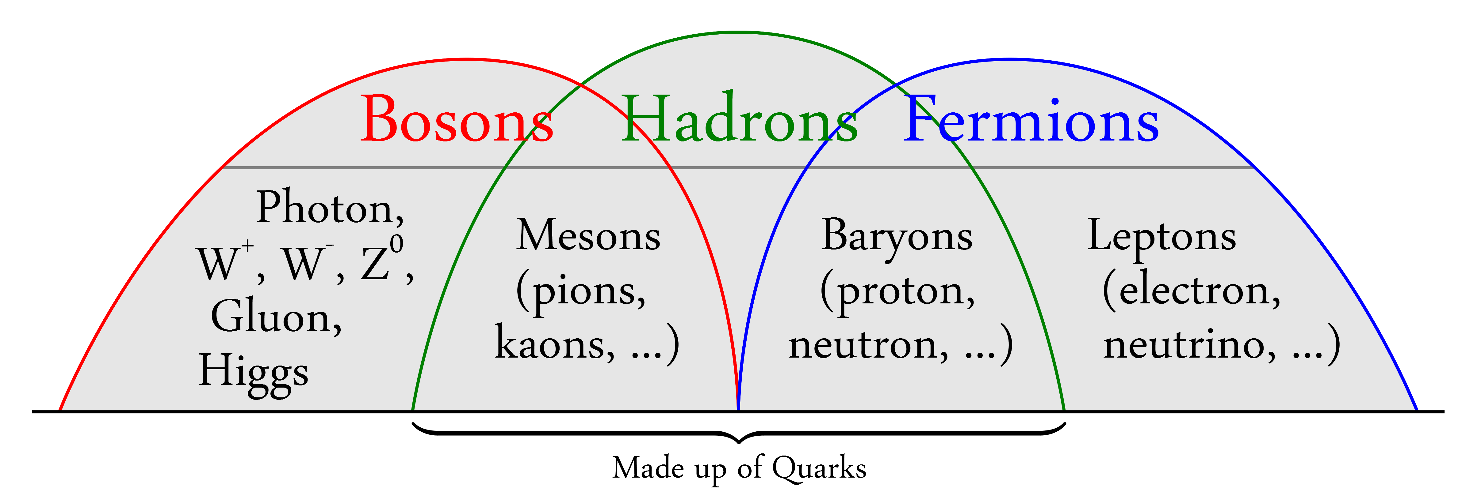 Bosons-Hadrons-Fermions-Diagram-RGB-png2